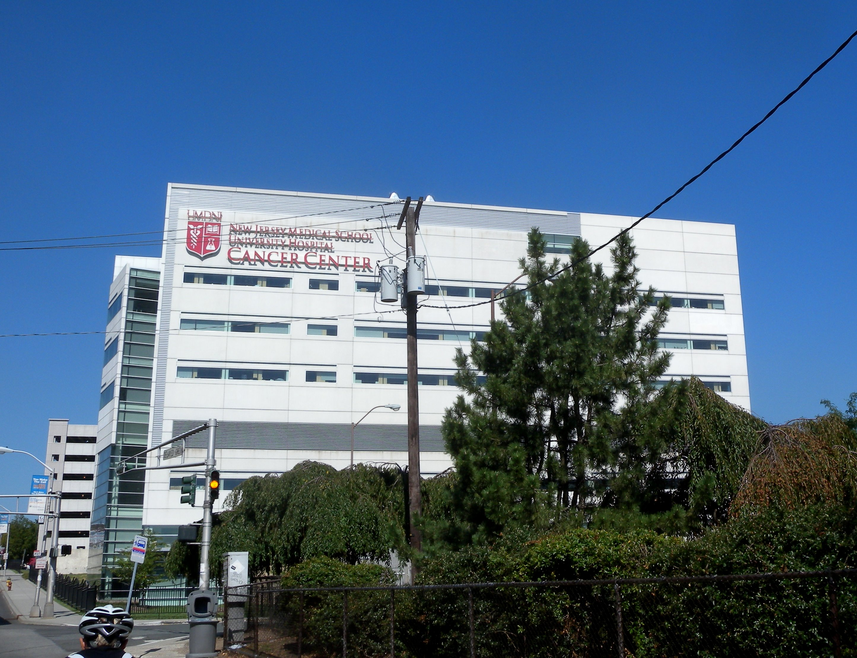 Looking west along South Orange Avenue at Cancer Center on a sunny morning.